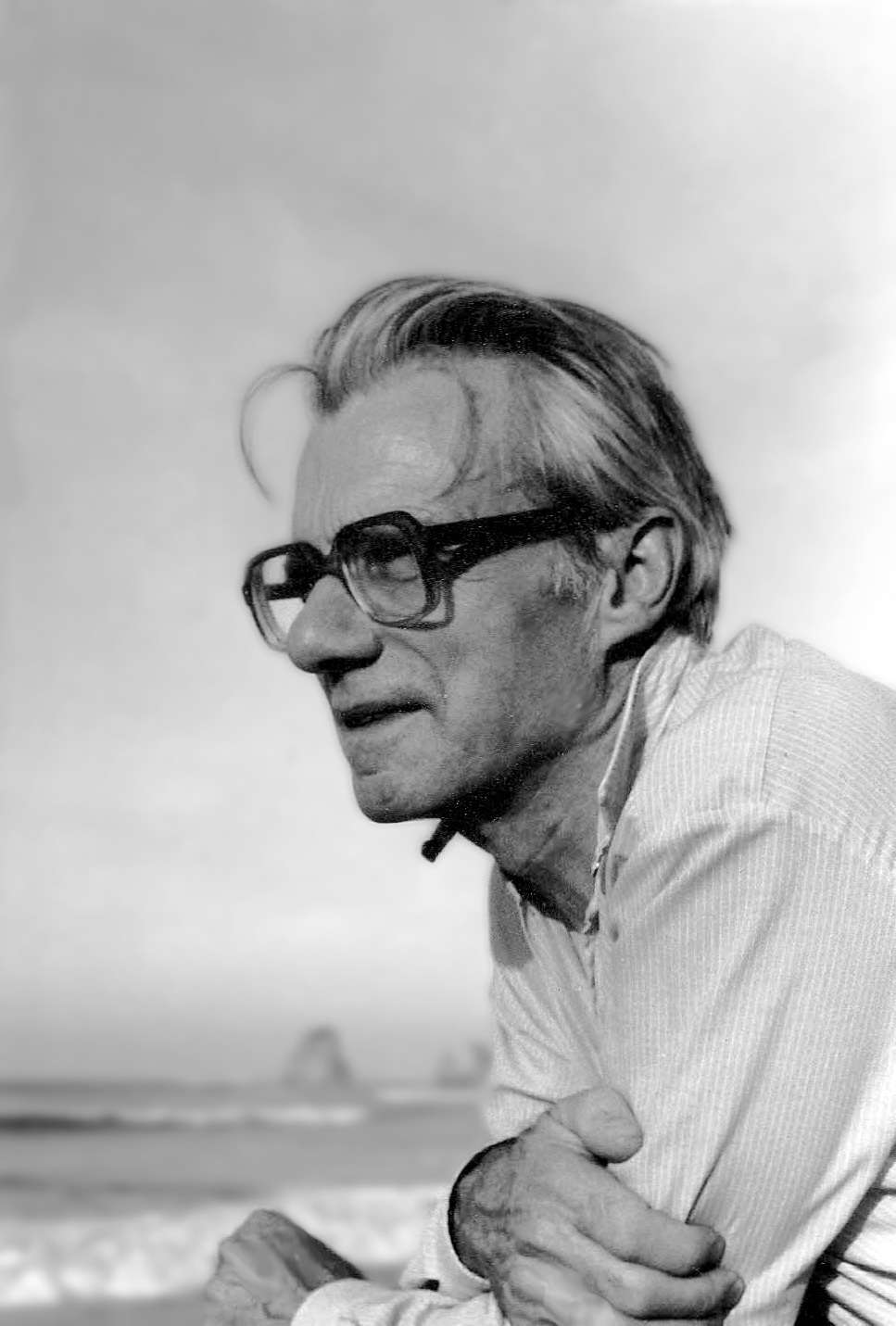 Jacques Perrin de Brichambaut – French ornithologist (1920-2007) Source: Library and Documentation Service Museum of Toulouse